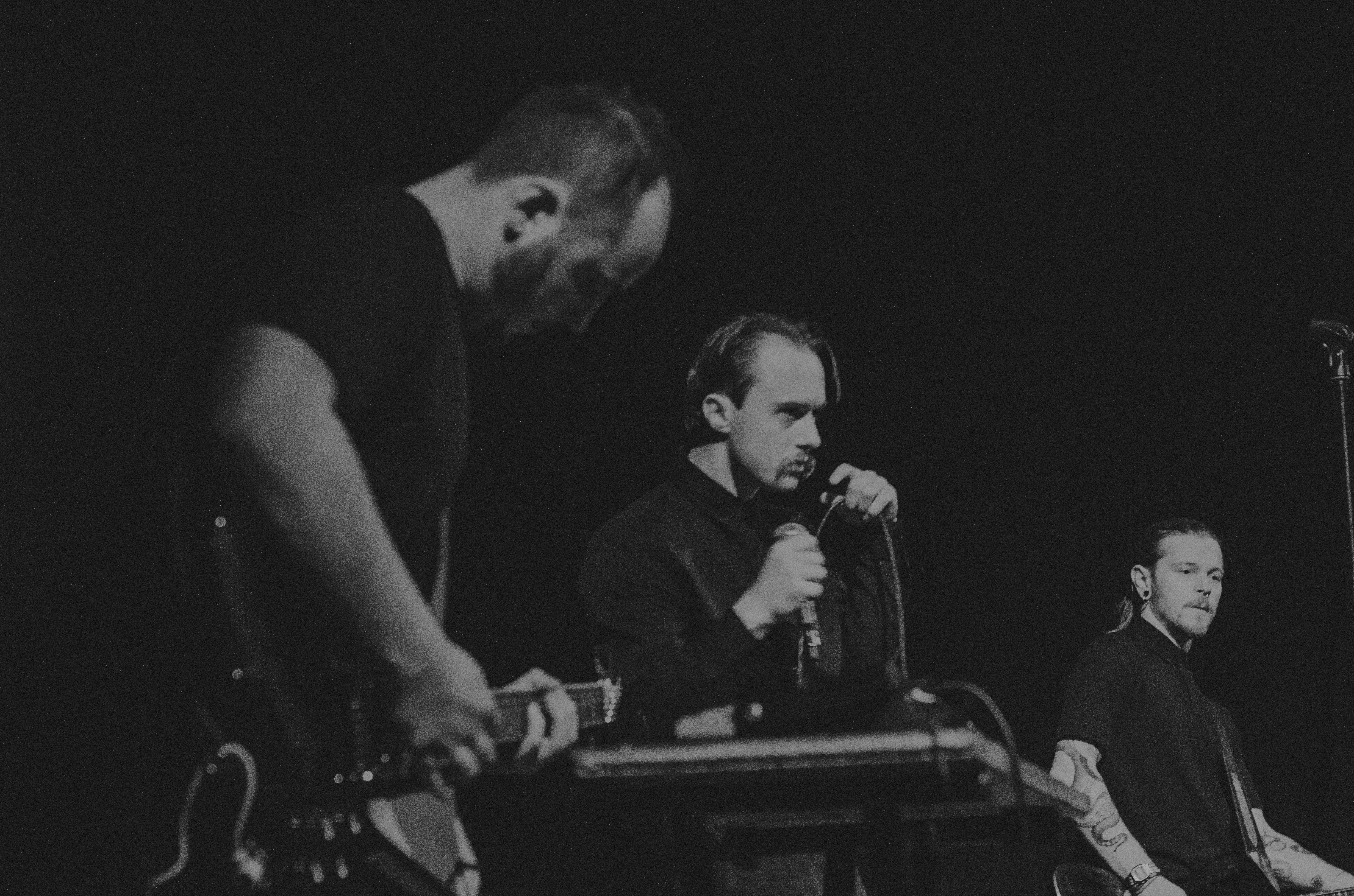 Molchat Doma in Kablys + Kultūra (Lithuania) in October 6, 2019.